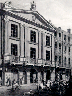 Engraving from The Works of Robert Adam, 1778 or 1779, showing the facade the Adam brothers built for the Theatre Royal, Drury Lane in 1775.